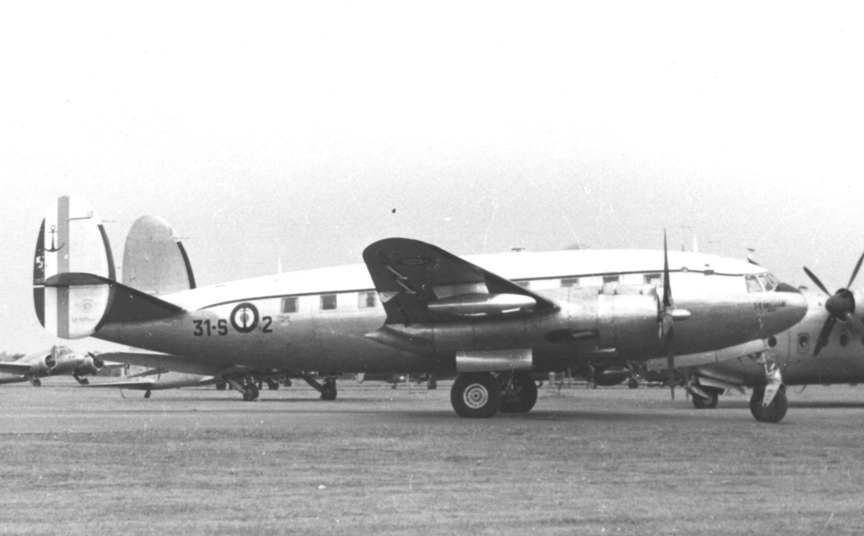 SNCASO SO.30P Bretagne No. 40 of Aeronavale equipped with underwing Turbomeca Palas auxiliary jets